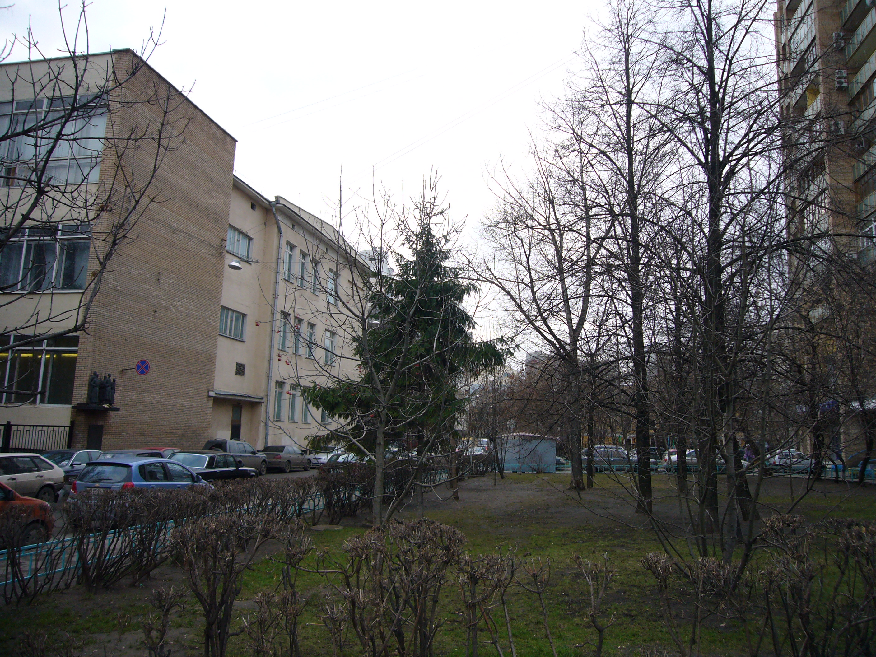 View of Nozhovy Sidestreet from B. Nikitskaya Street, Moscow, Russia